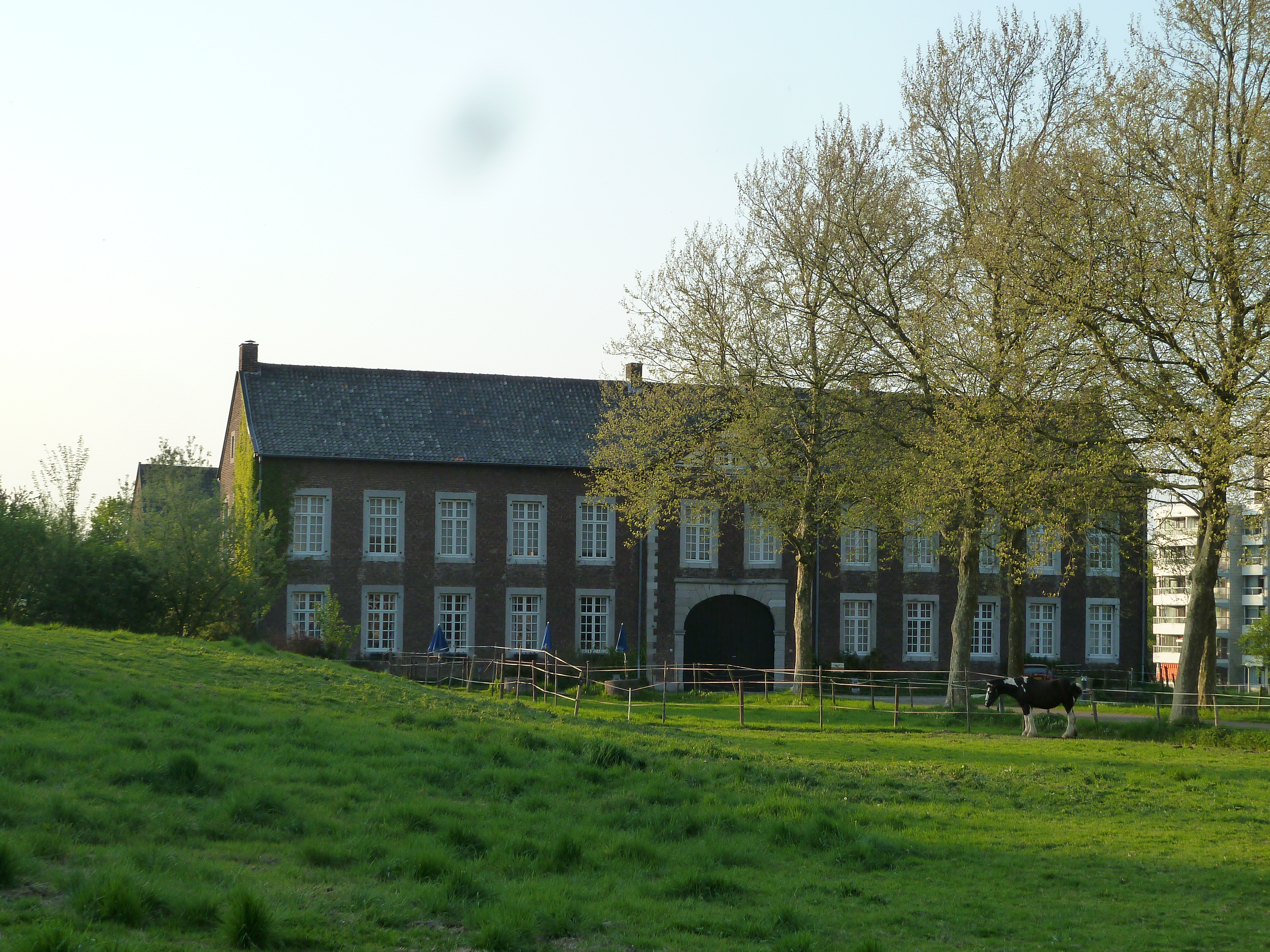 Valkenburgerweg 54, Heerlen, Limburg, the Netherlands